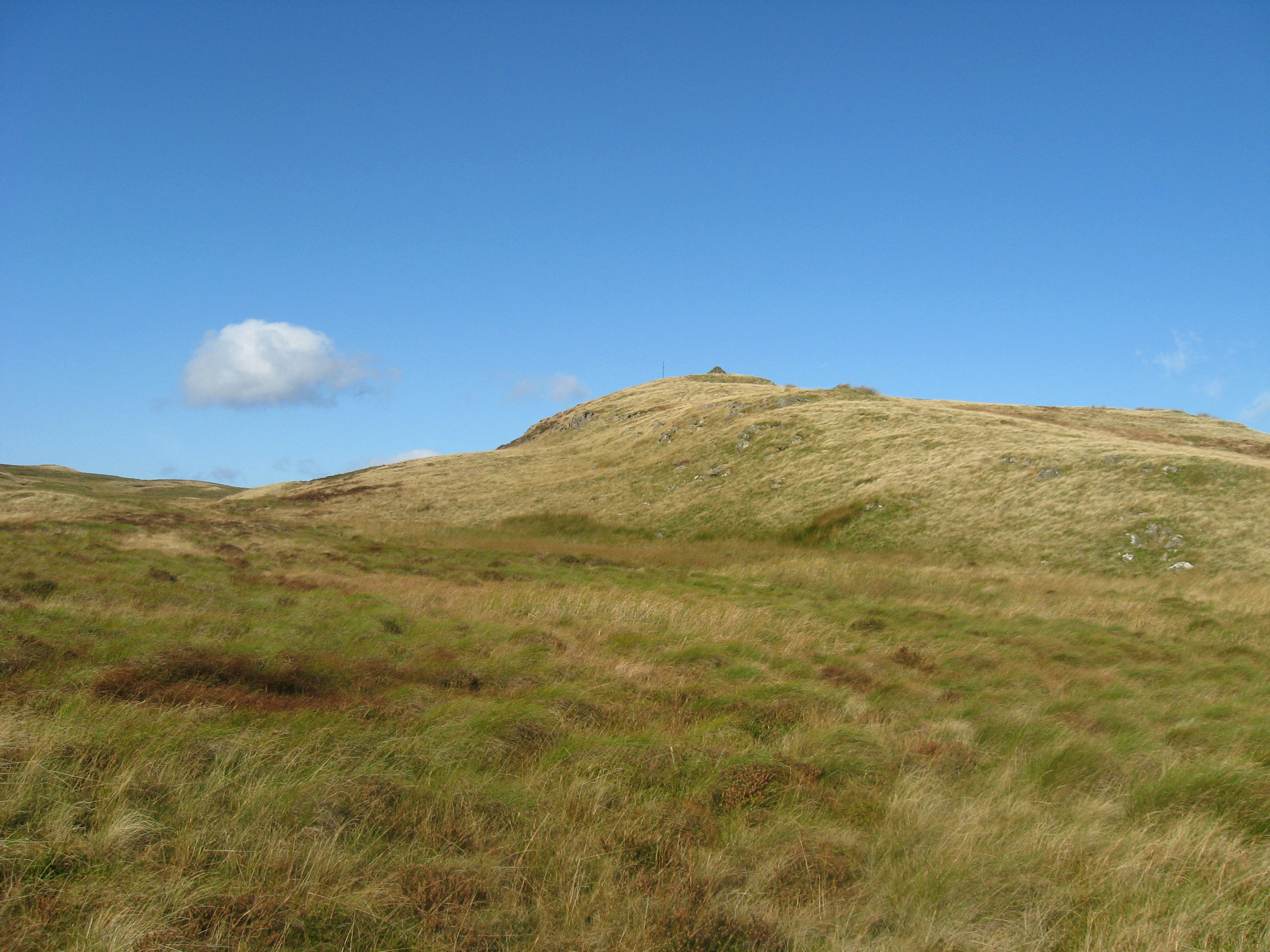 Auchenbourach Hill from the south, to the east of the River Garnock. The cairn commemorates Cochran-Patrick of the Barony of Ladyland.